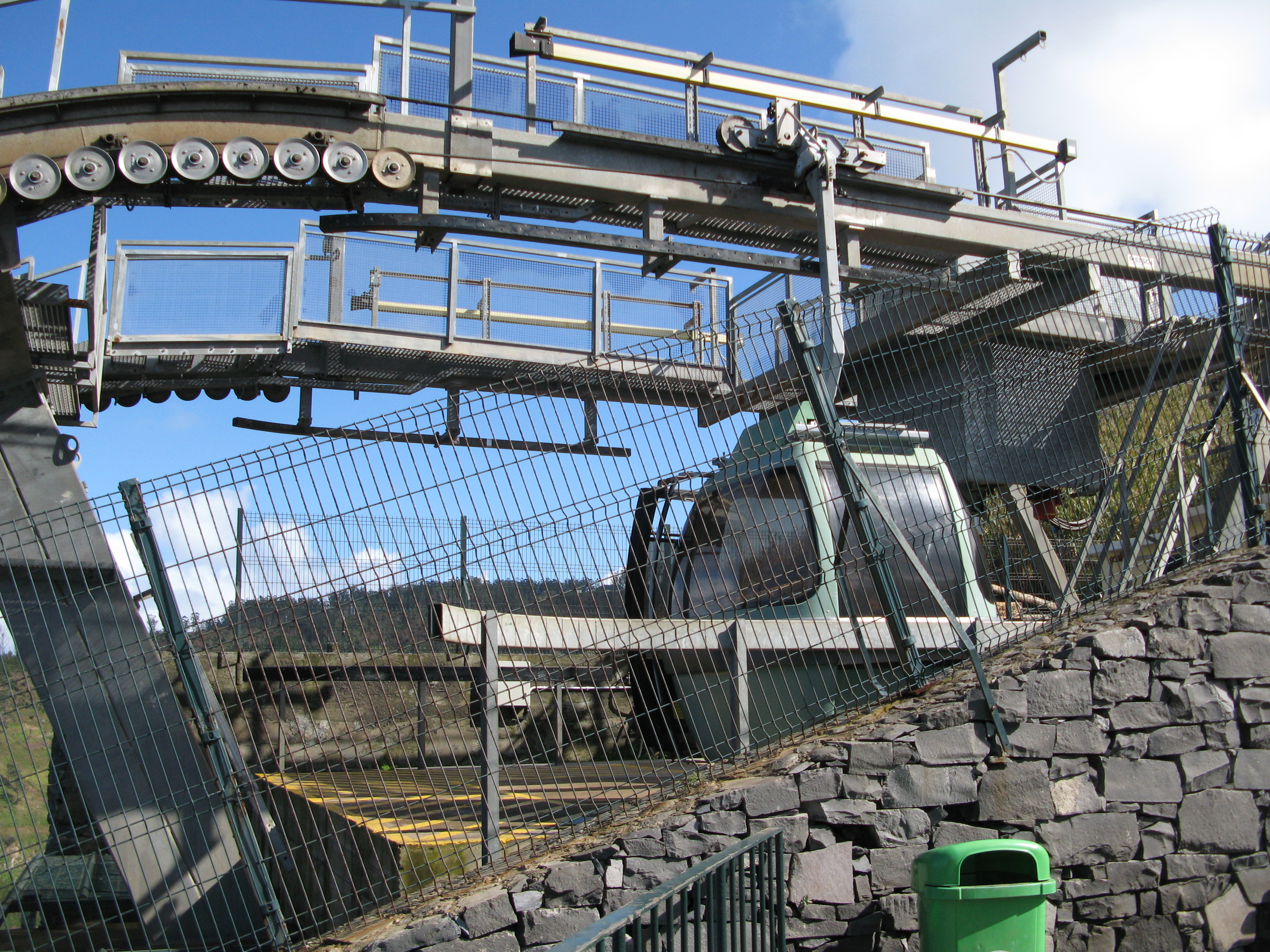 Cableway at Achadas da Cruz